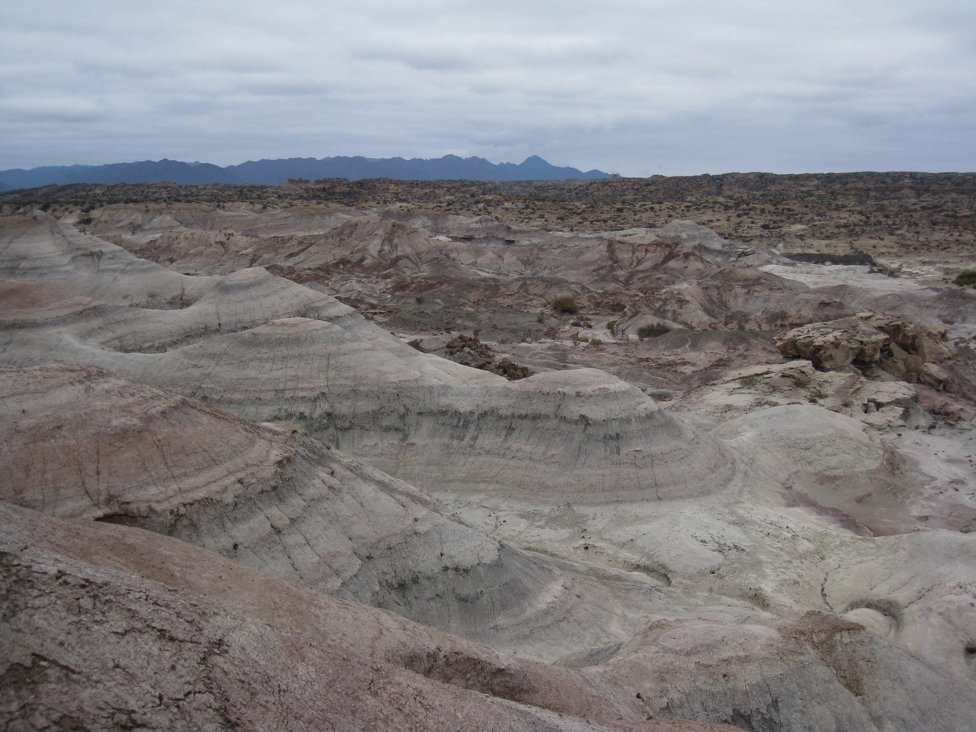 San Juan region of Argentina